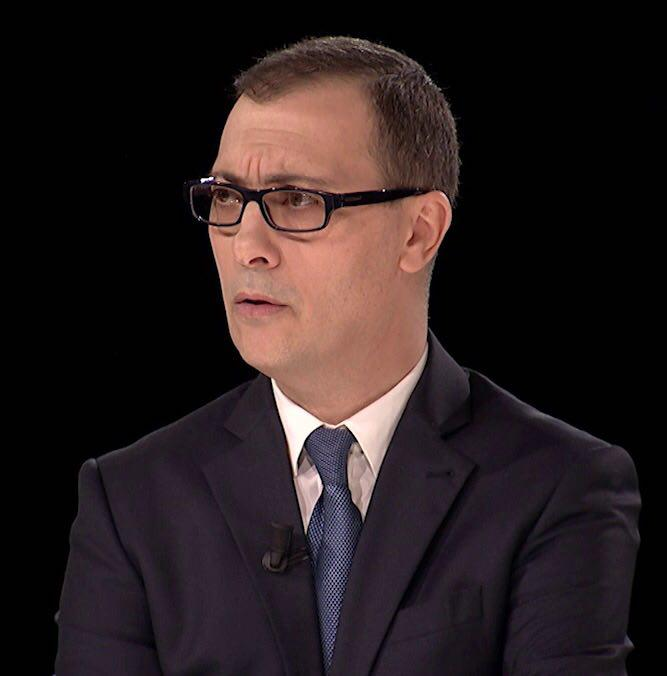 Photo from the studio of the 'A Krasta Show', an Albanian TV show hosted and presented by Adi Krasta at Agon Channel.